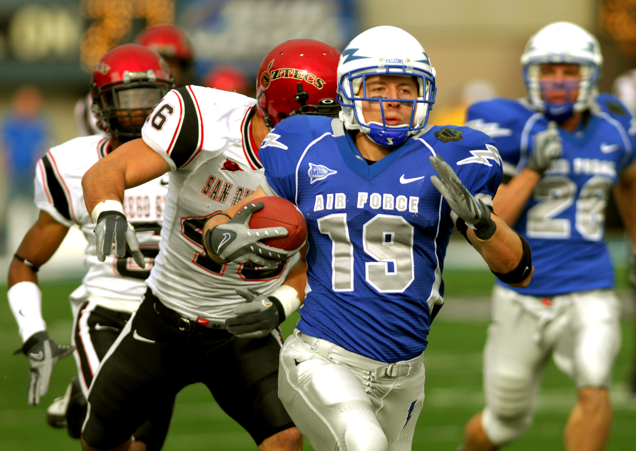 Running back Ty Paffett rushing